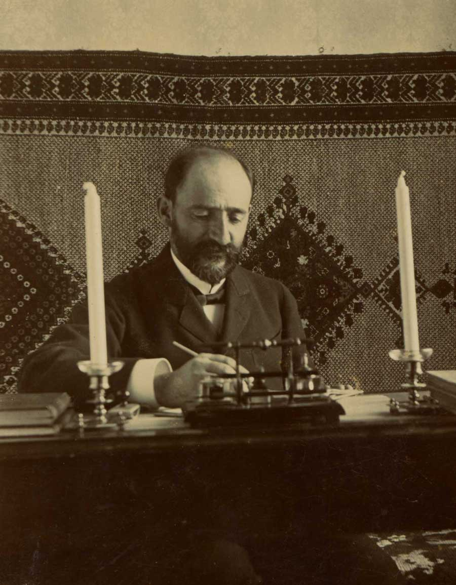 Armenian novelist Muratsan (Grigor Ter-Hovanissian)